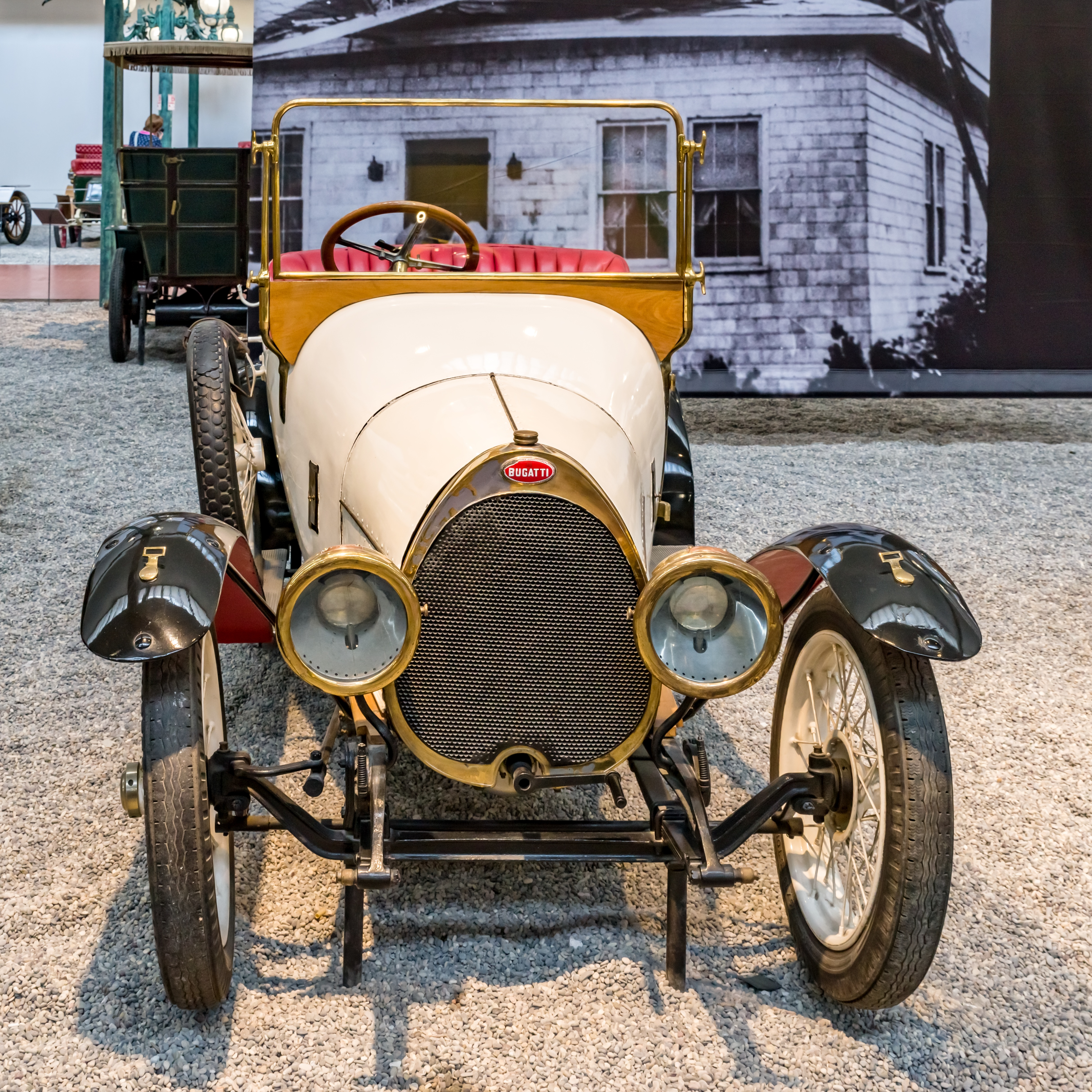 pictures from the Cité de l’Automobile – Musée National – Collection Schlump in Mulhouse, France ptictures from the 10. may 2018